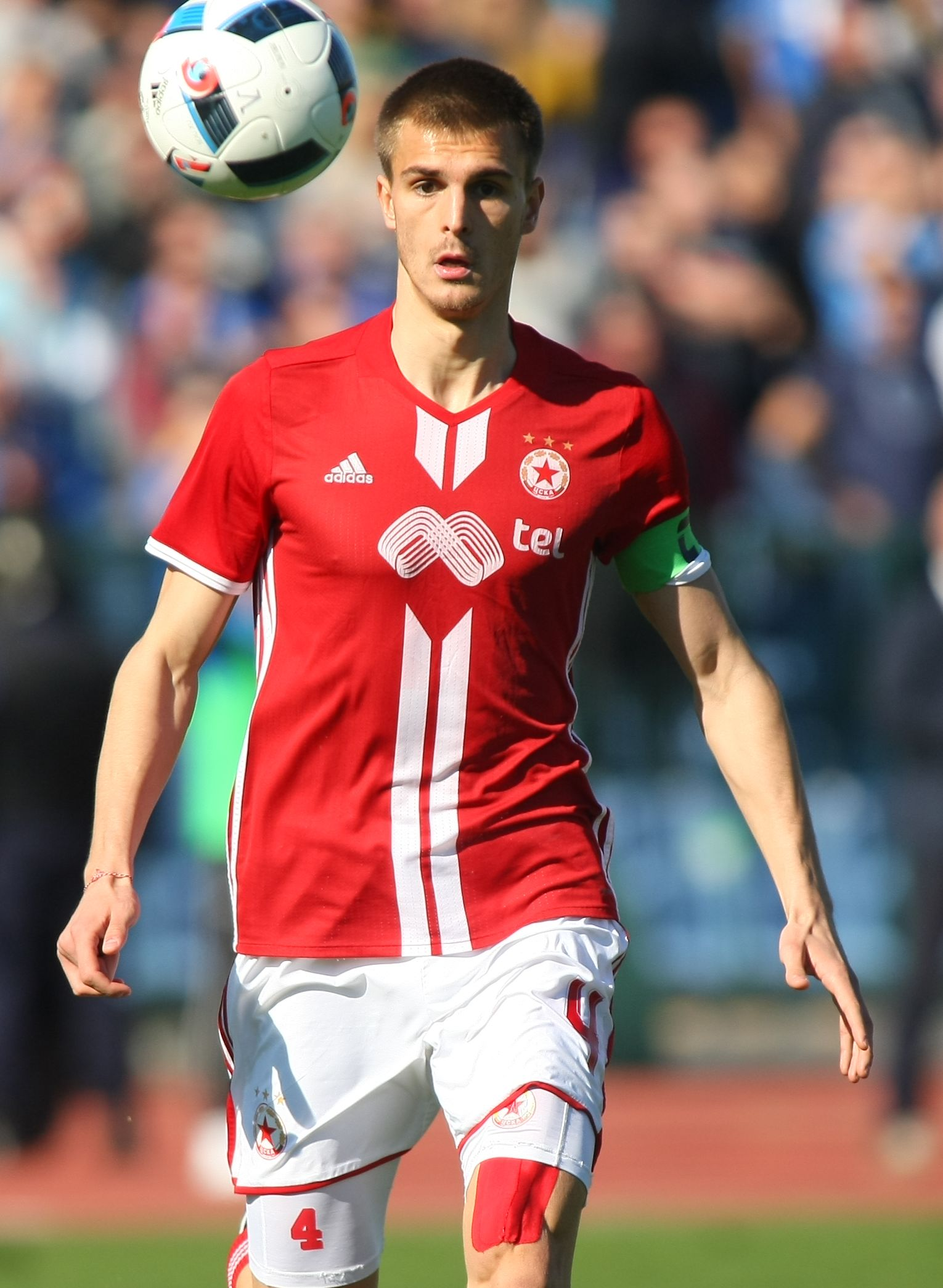 Bozhidar Chorbadzhiyski (Bulgarian: Божидар Чорбаджийски; born 8 August 1995) is a Bulgarian footballer who plays for CSKA Sofia as a defender.